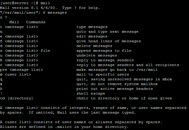 interface of mail (unix) application